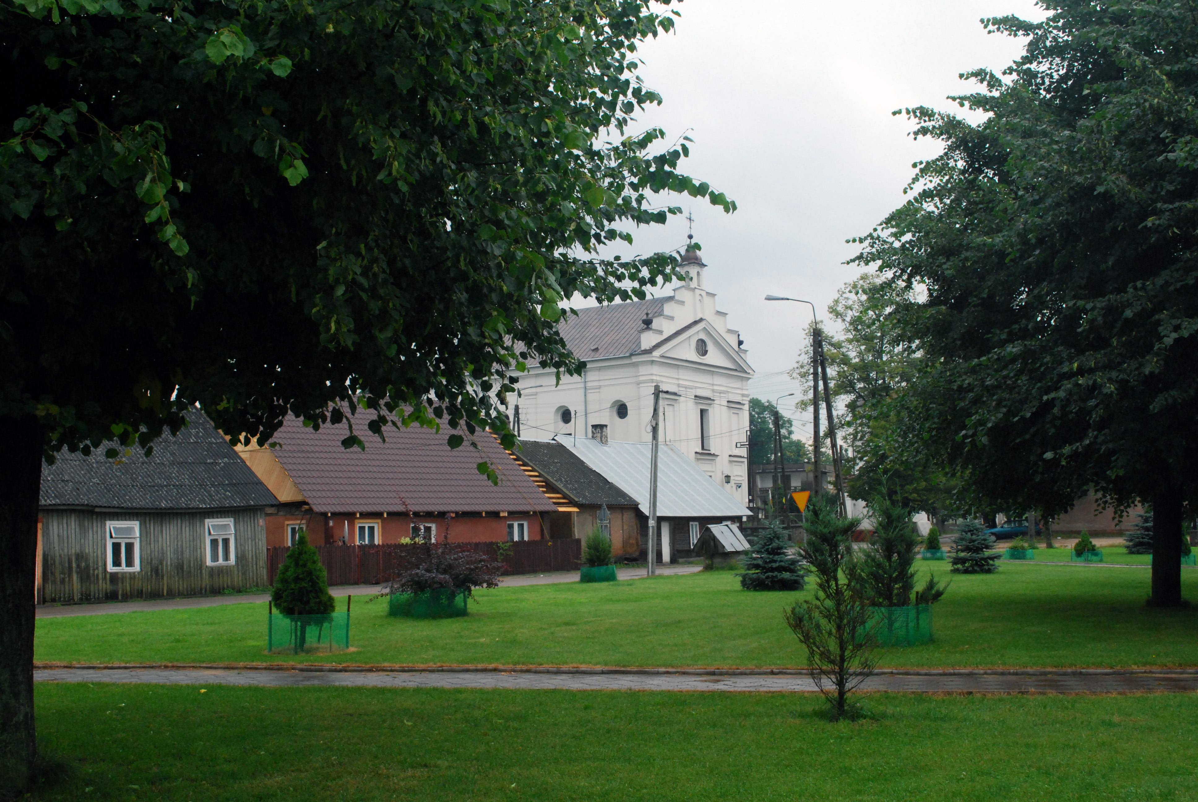 This photo from Podlaskie Voievodeship was taken during Polish Wikiexpedition 2009 set up by Wikimedia Polska Association. The making of this document was supported by Wikimedia Polska. Skwer w Sidrze.